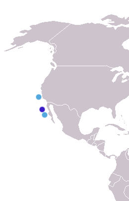 Distribution of the Guadalupe Fur Seal, Arctocephalus townsendi (dark blue: breeding colonies on Guadalupe Island; light blue: non-breeding individuals on Isla Cedros and Channel Islands)